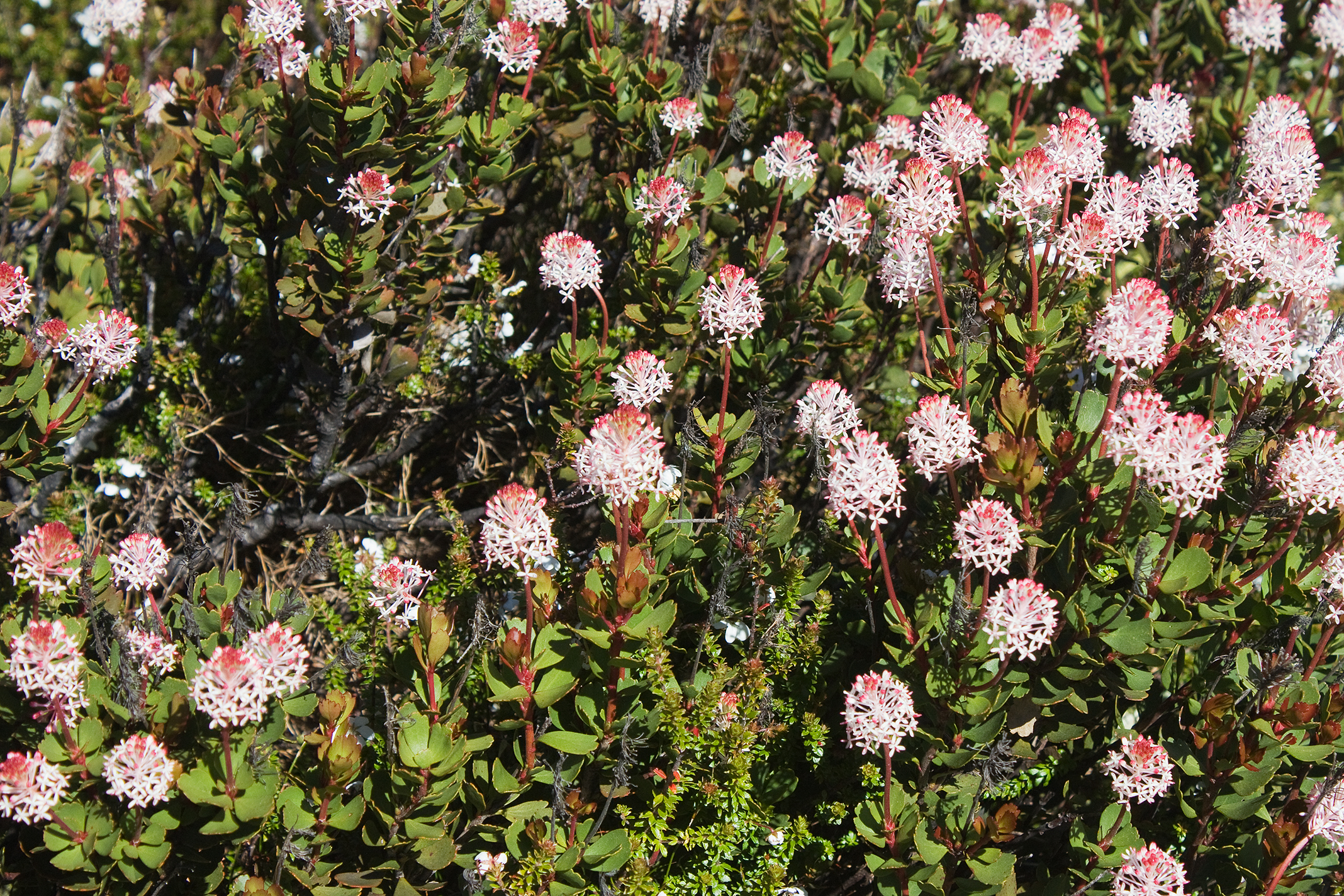 Mountain Rocket (Bellendena montana), Hartz Mountains National Park, Tasmania, Australia